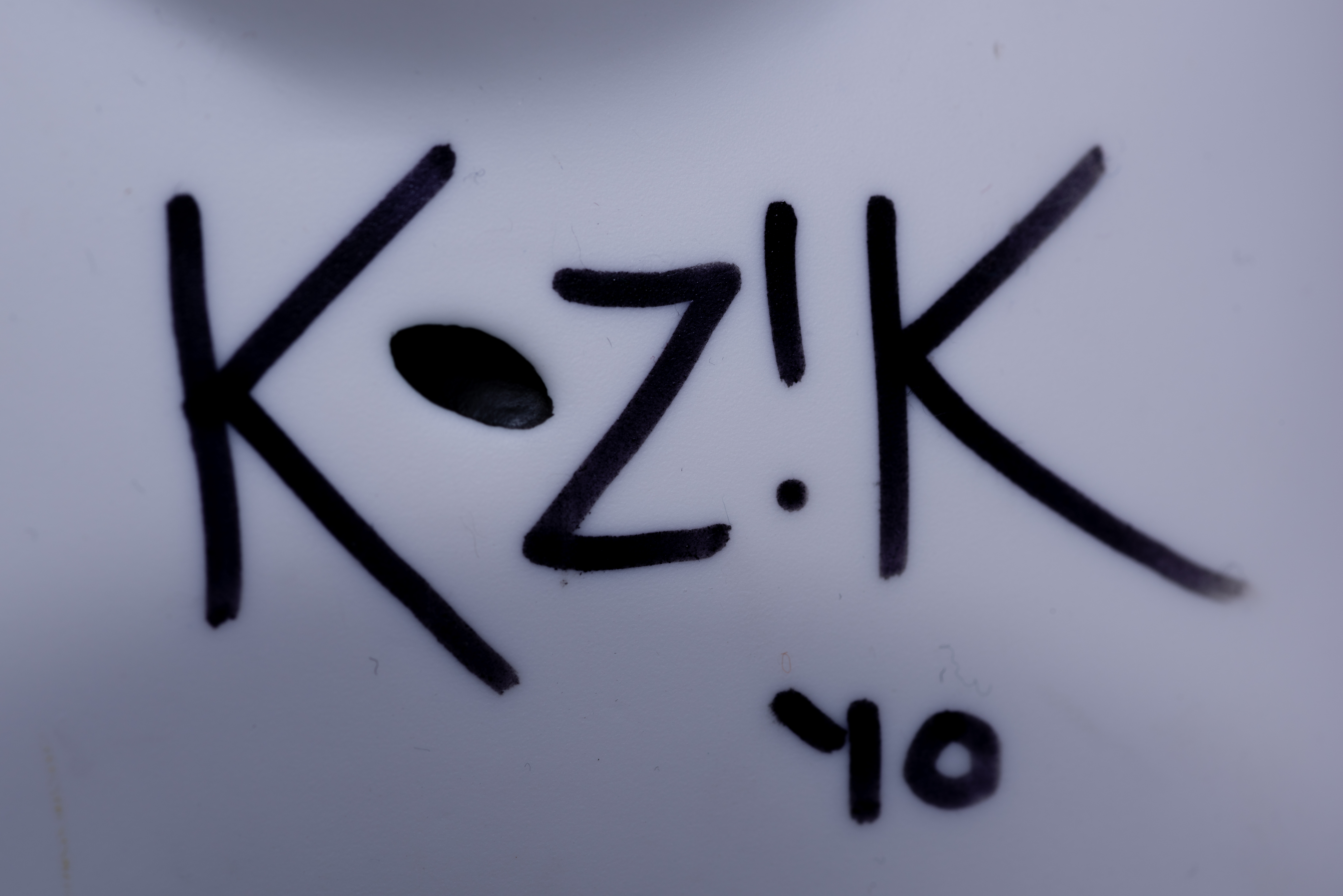 Frank Kozik autograph